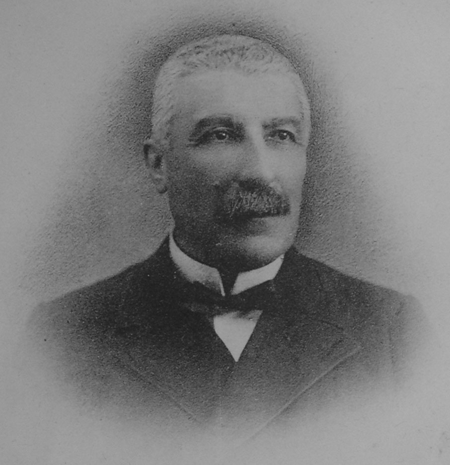 The botanist François-Xavier Gillot (1842-1910) Le botaniste François-Xavier Gillot (1842-1910)